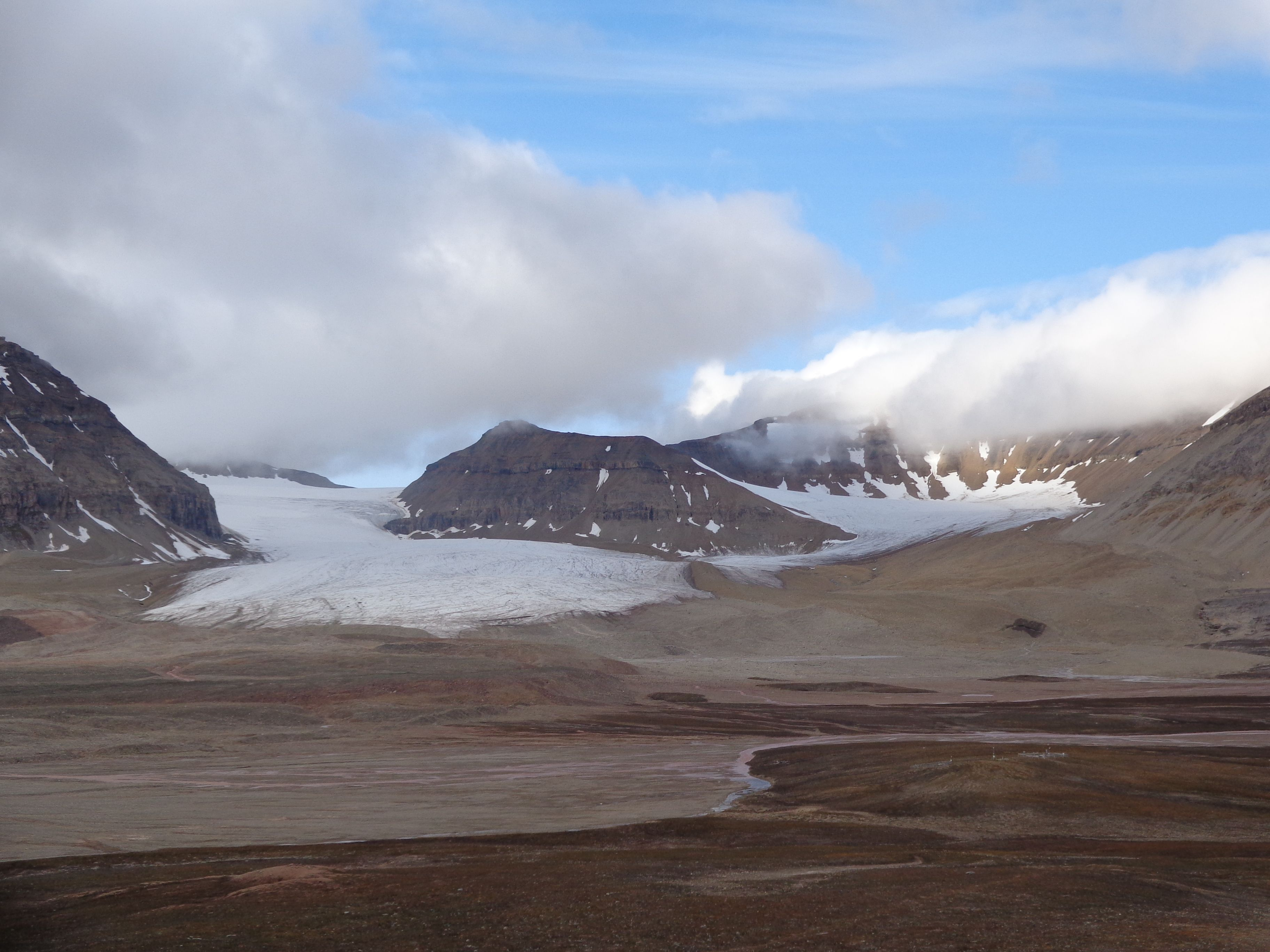 Brøggerbreen, Spitsbergen, Svalbard